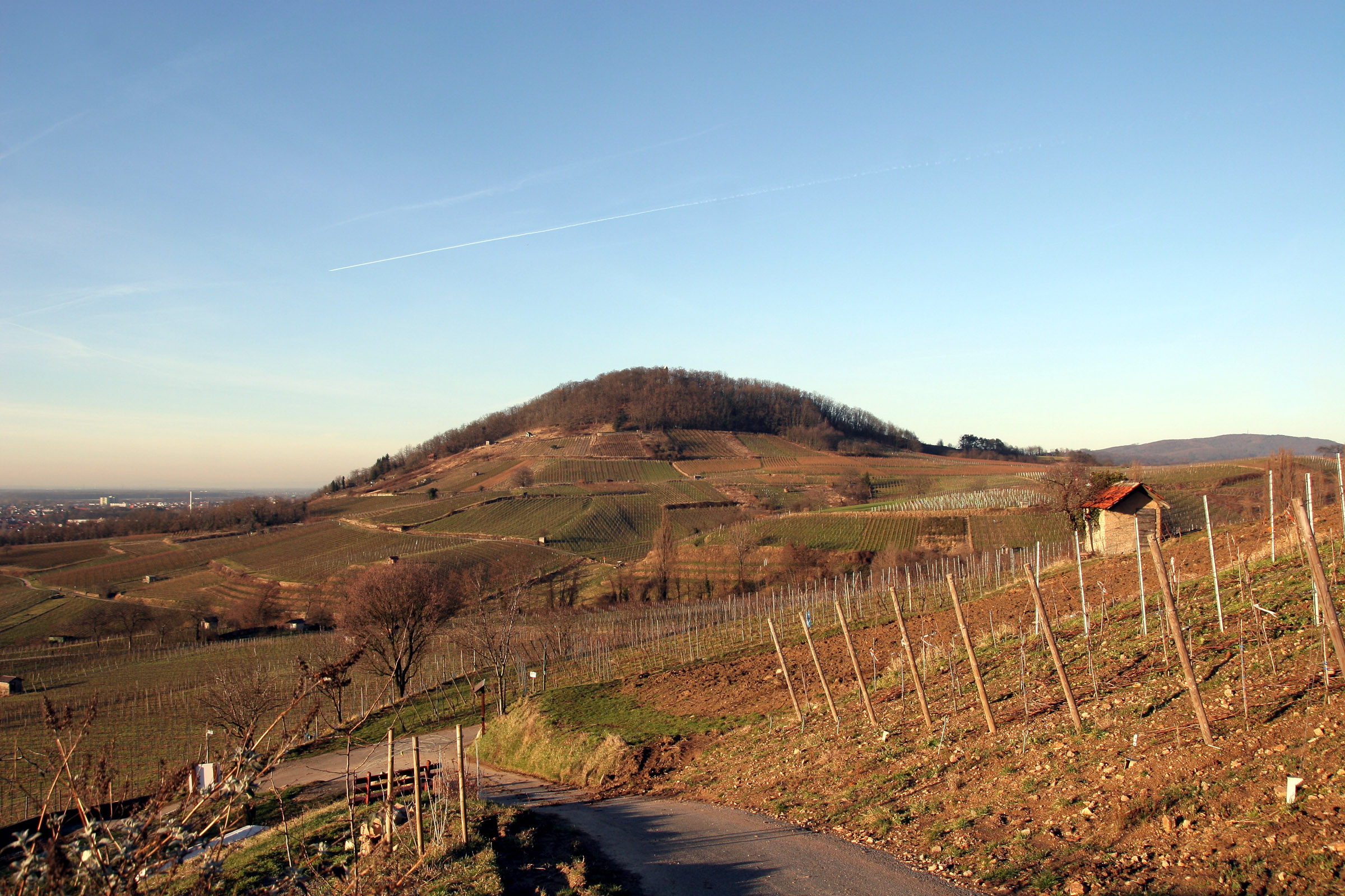 The Hemsberg hill close to Bensheim (Hesse, Germany). Seen from South direction